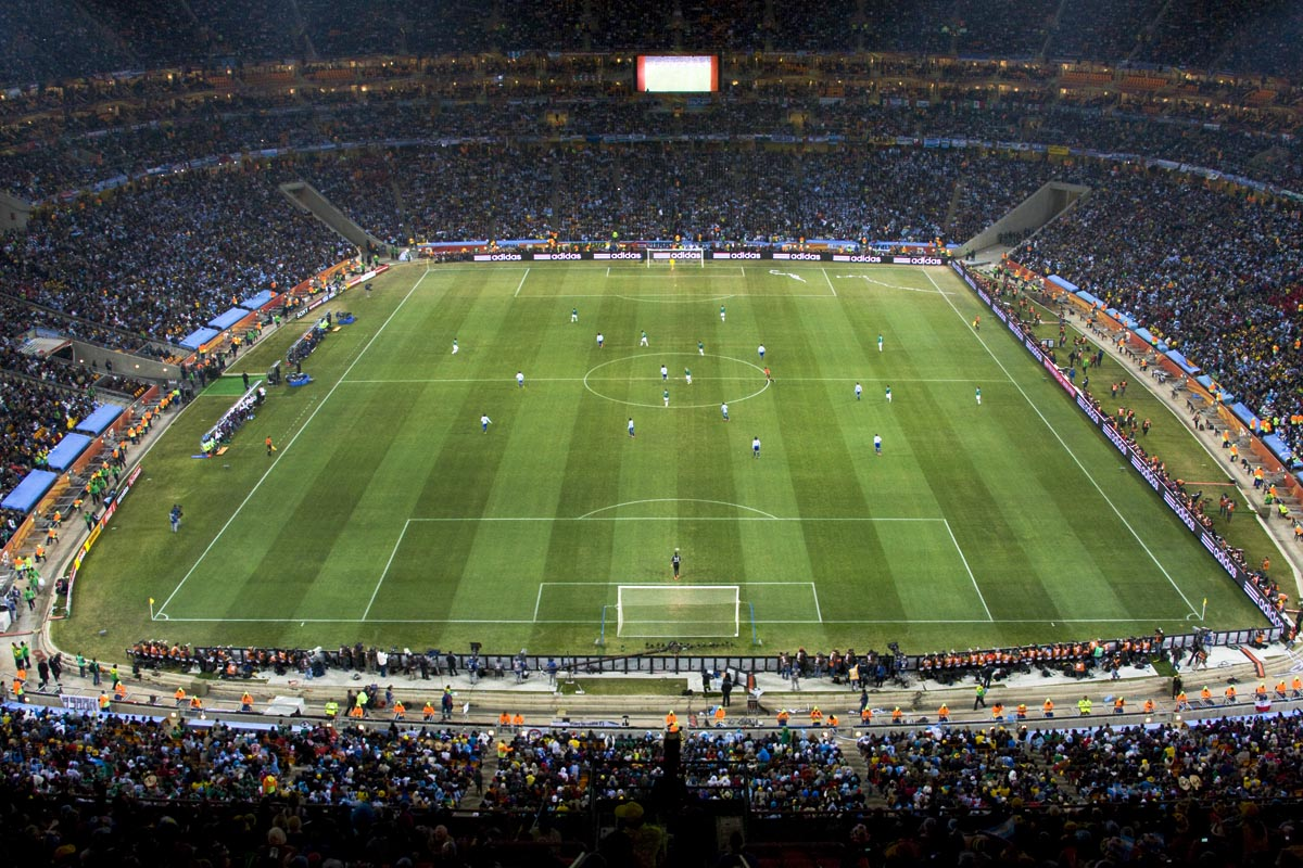 Teams during the Round of 16 game between Argentina and Mexico at FIFA World Cup 2010, 27 June 2010, Soccer City, Johannesburg